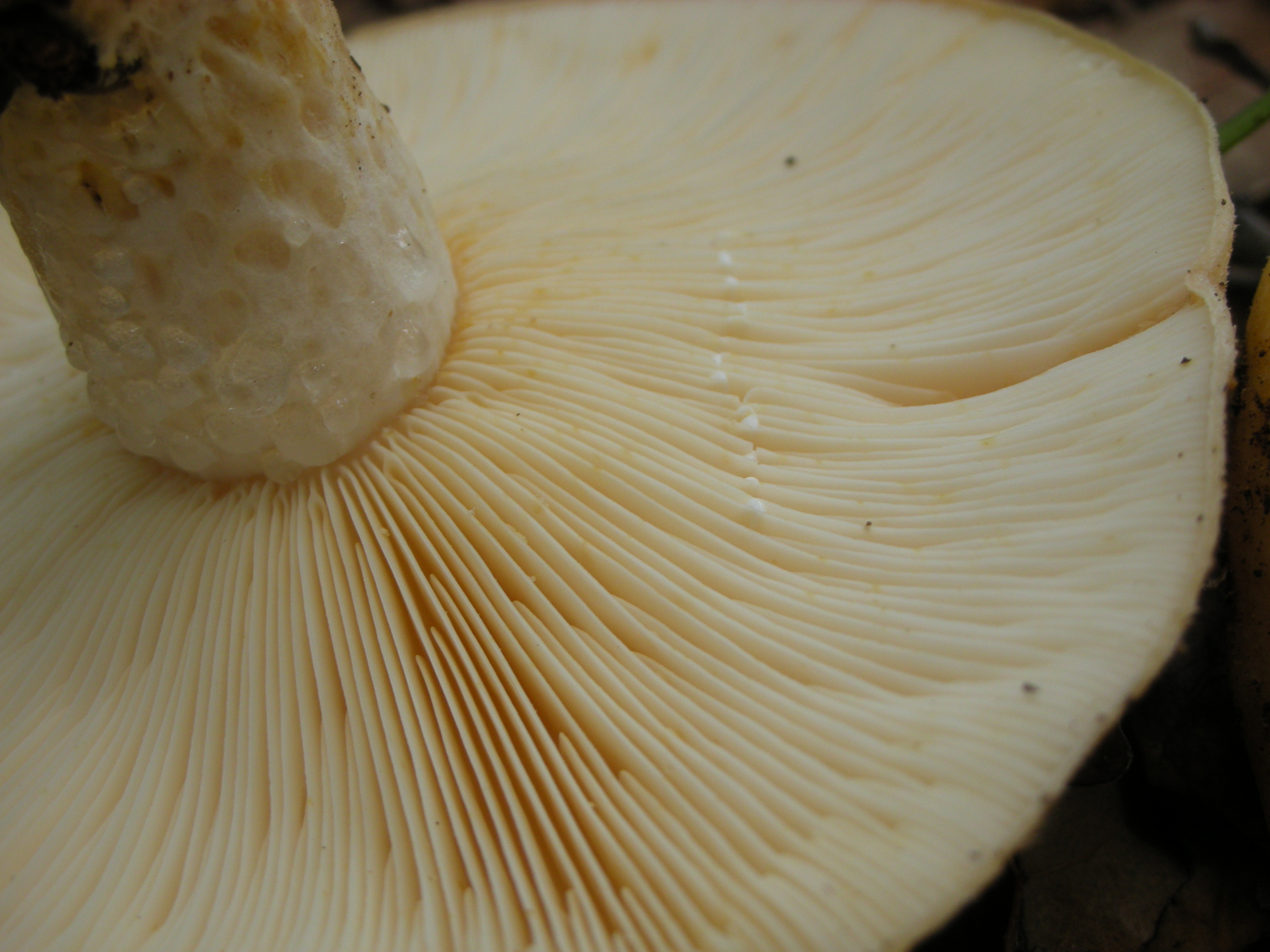 The gills of the mushroom Lactarius alnicola A.H. Sm. Specimen collected from Novato, Marin Co., California, USA. Brightness increased using Photoshop by uploader.